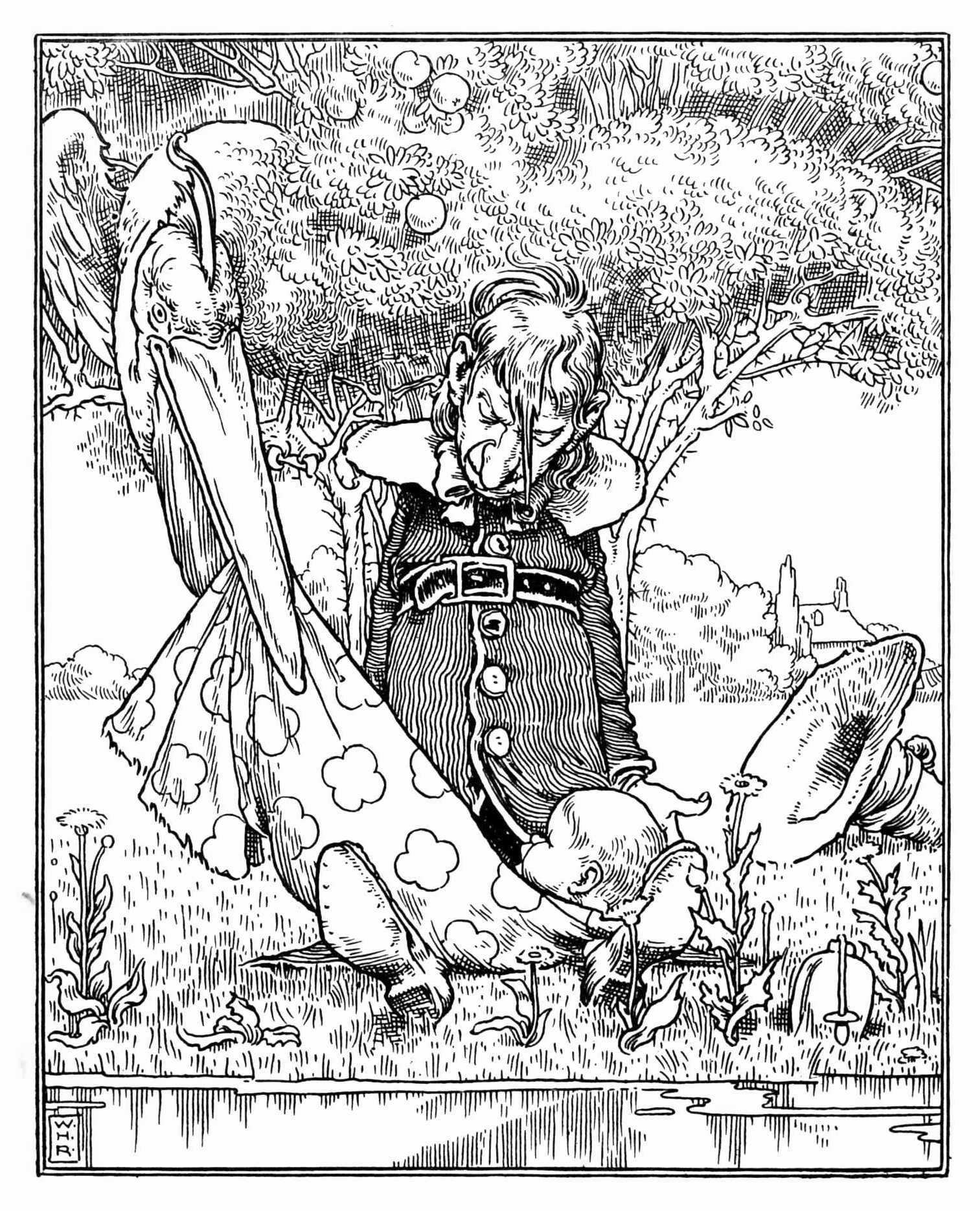 the baby is being kidnapped by a bird